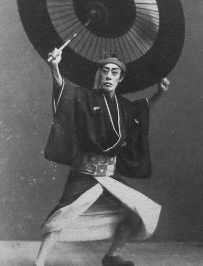 Danjūrō Ichikawa IX (1838–1909) as Sukeroku in the May 1896 Kabukiza production of Sukeroku Yukari no Edo-zakura